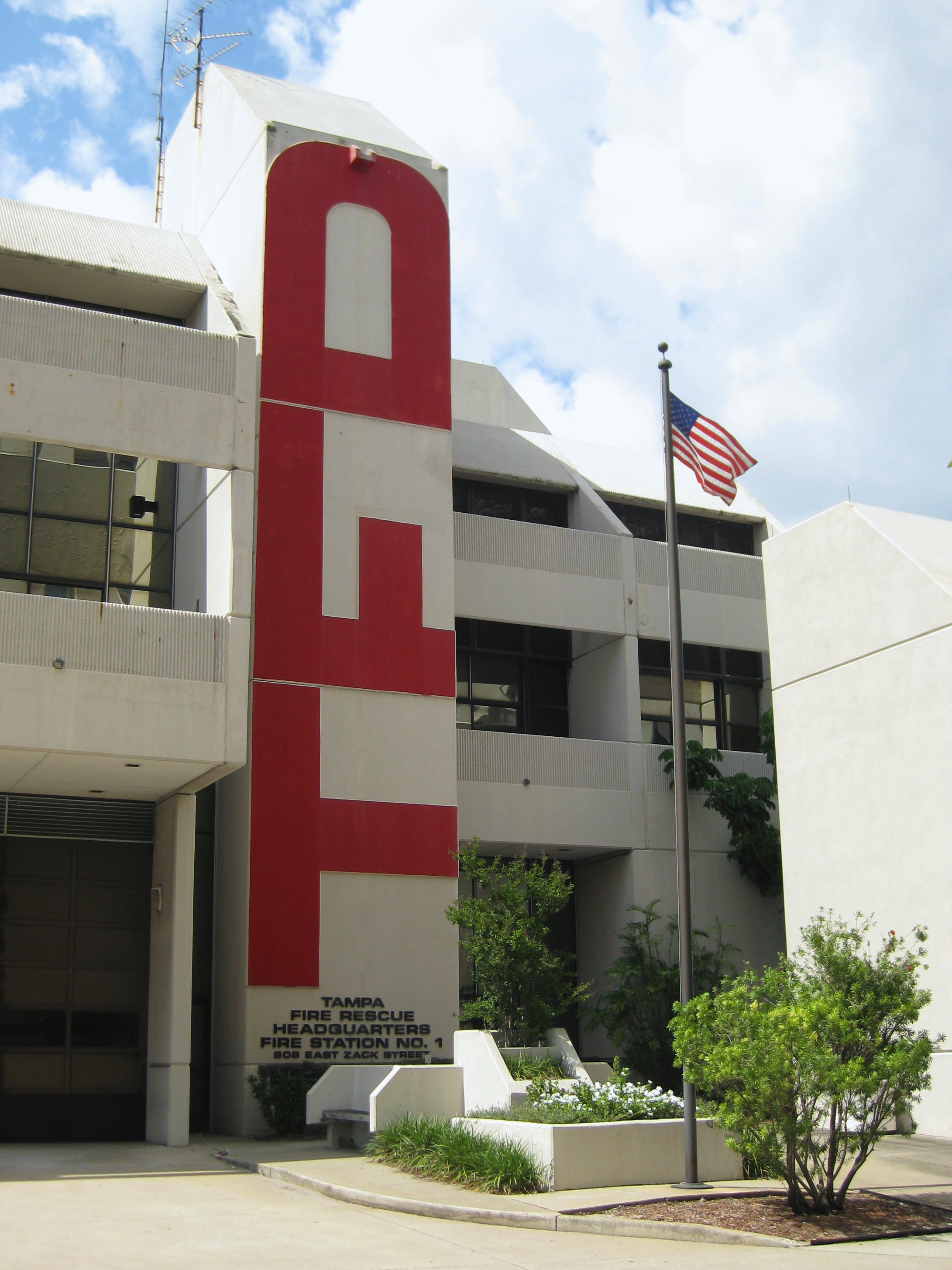 The city of Tampa's Fire Rescue Headquarters Fire Station Number 1, at 808 East Zack Street in downtown Tampa, Florida, USA.